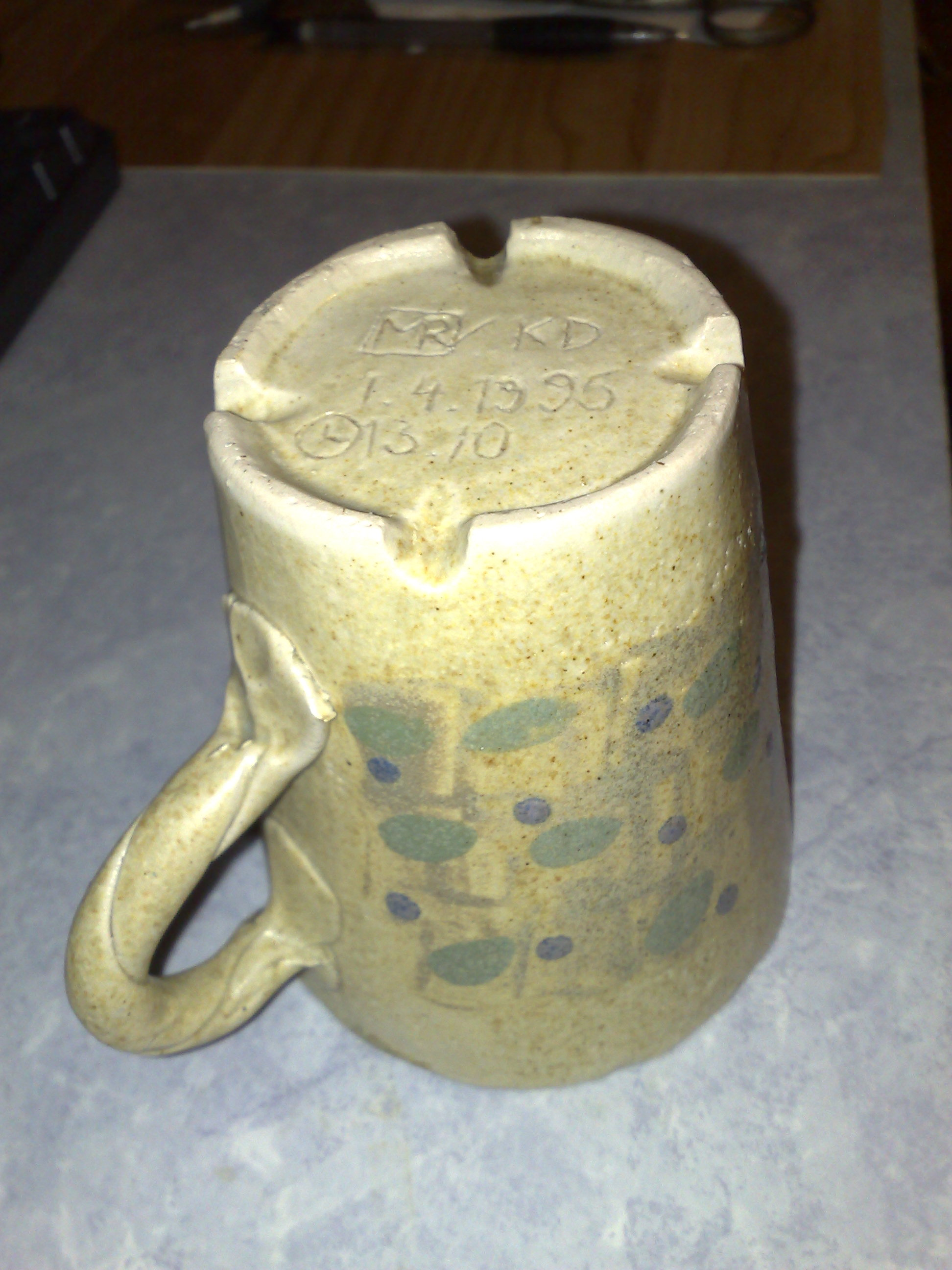 A picture of a ceramic mug. On the bottom displayed the monogram of the creator, letter ID of the class it's been done in, date in dd.mm.yyyy format and time in hh.mm format.